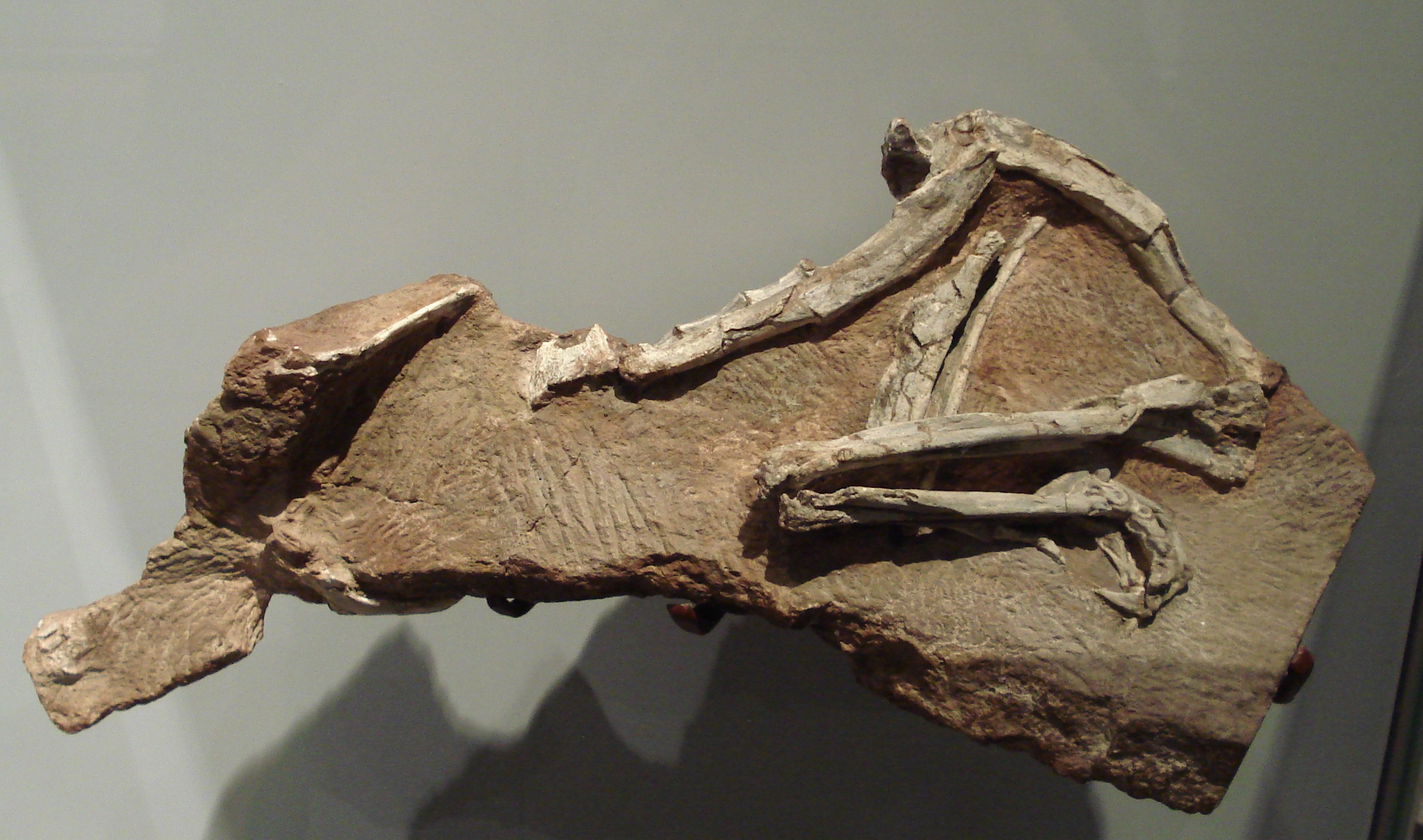 Holotype fossil specimen SMNS 12591 of Procompsognathus